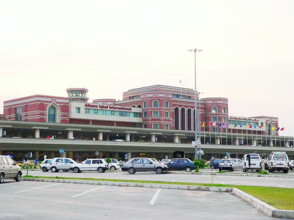 Allama Iqbal International Airport, Lahore. Image by Waqas Usman (User:Waqas.usman) More images at More images from the airport at Originally at